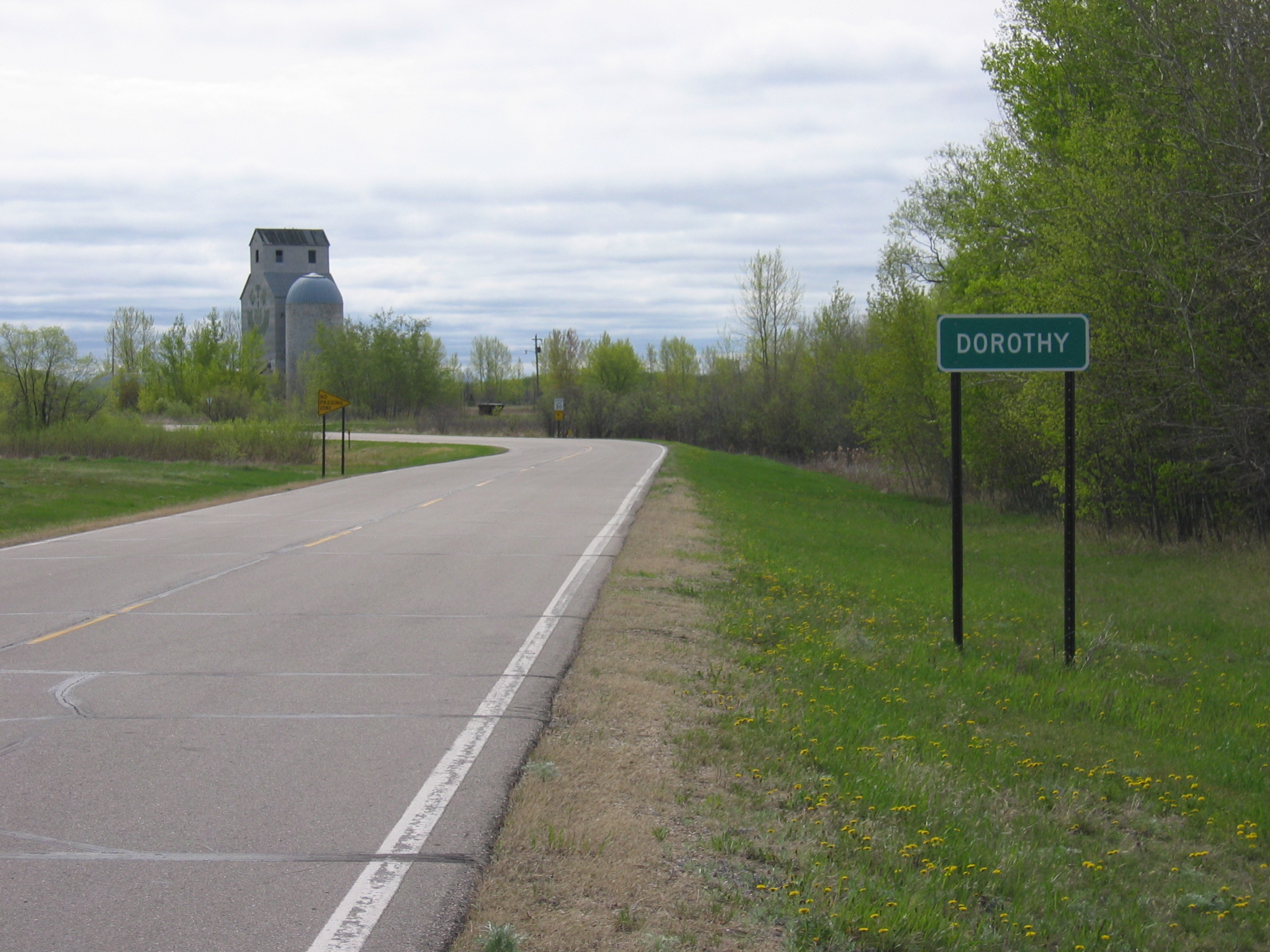 Personally photographed by the undersigned May 7, 2007 Elcajonfarms (talk) 06:33, 23 December 2007 (UTC)